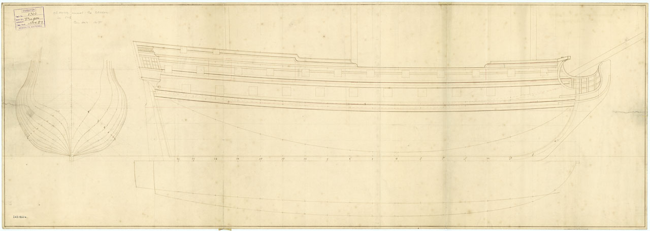 Ormond (1711) [later Dragon (1715)] Scale: 1:48. Plan showing the body plan, sheer lines, and basic longitudinal half-breadth for Ormond (1711), a 50-gun Fourth Rate, two-decker. She was renamed Dragon in 1715, and this plan refers to her with that name. She was fitted at Chatham Dockyard, between 1717-18 - PROGRESS BOOK DRAGON 1715